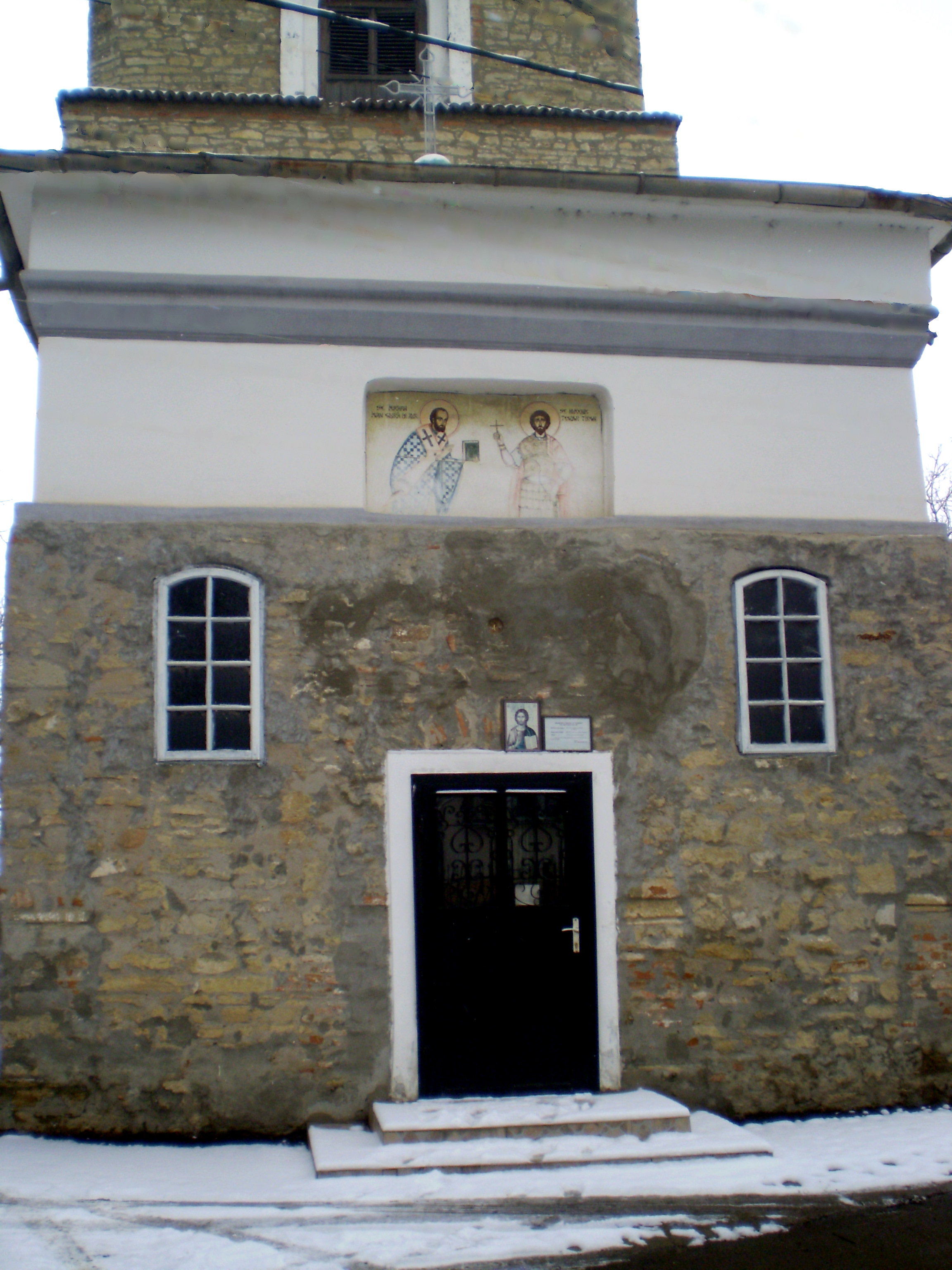 Iaşi , Zlataust Church , the entrance , Iaşi , Romania